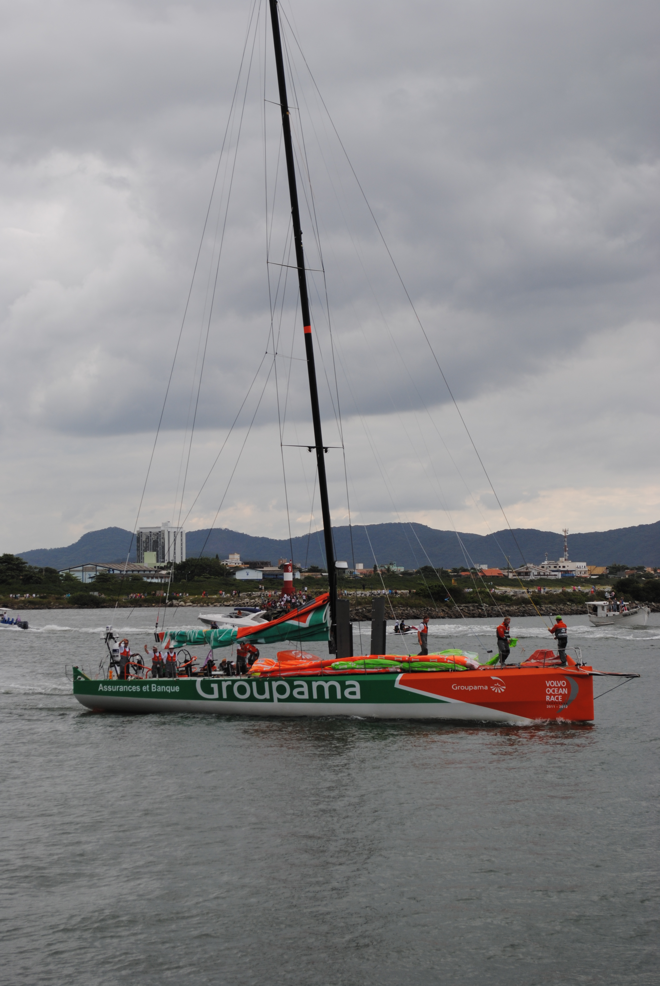 Groupama 4 in Itajaí during the 2011-2012 Volvo Ocean Race.